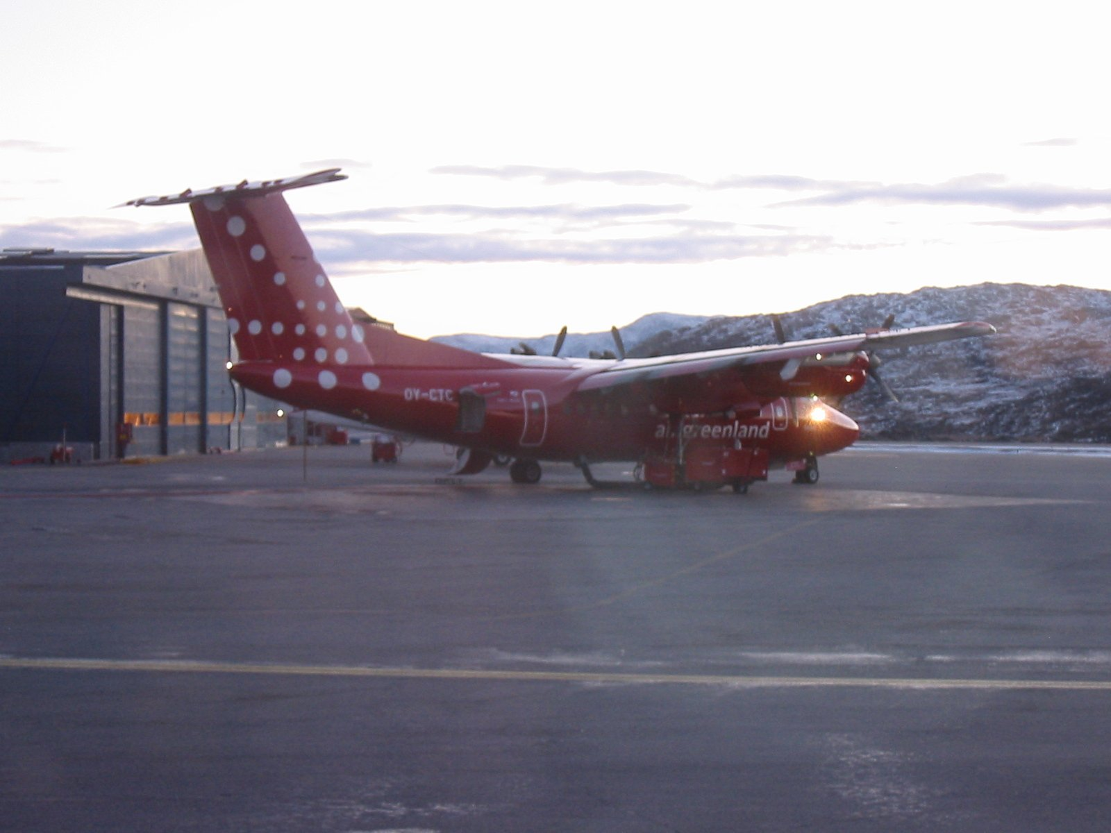 An Air Greenland Dash-7 (DHC-7) (OY-CTC) which connects Ilulissat to Kangerlussuaq.